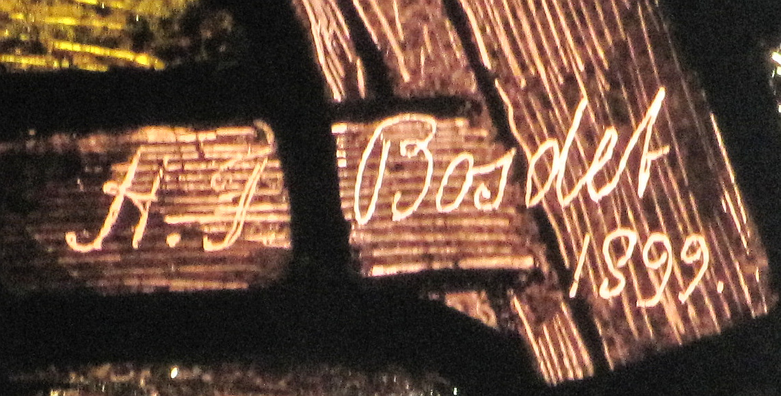 Stained glass window in Saint Brelade, Jersey Nrf: Eune vèrrinne à Saint Brélade, Jèrri